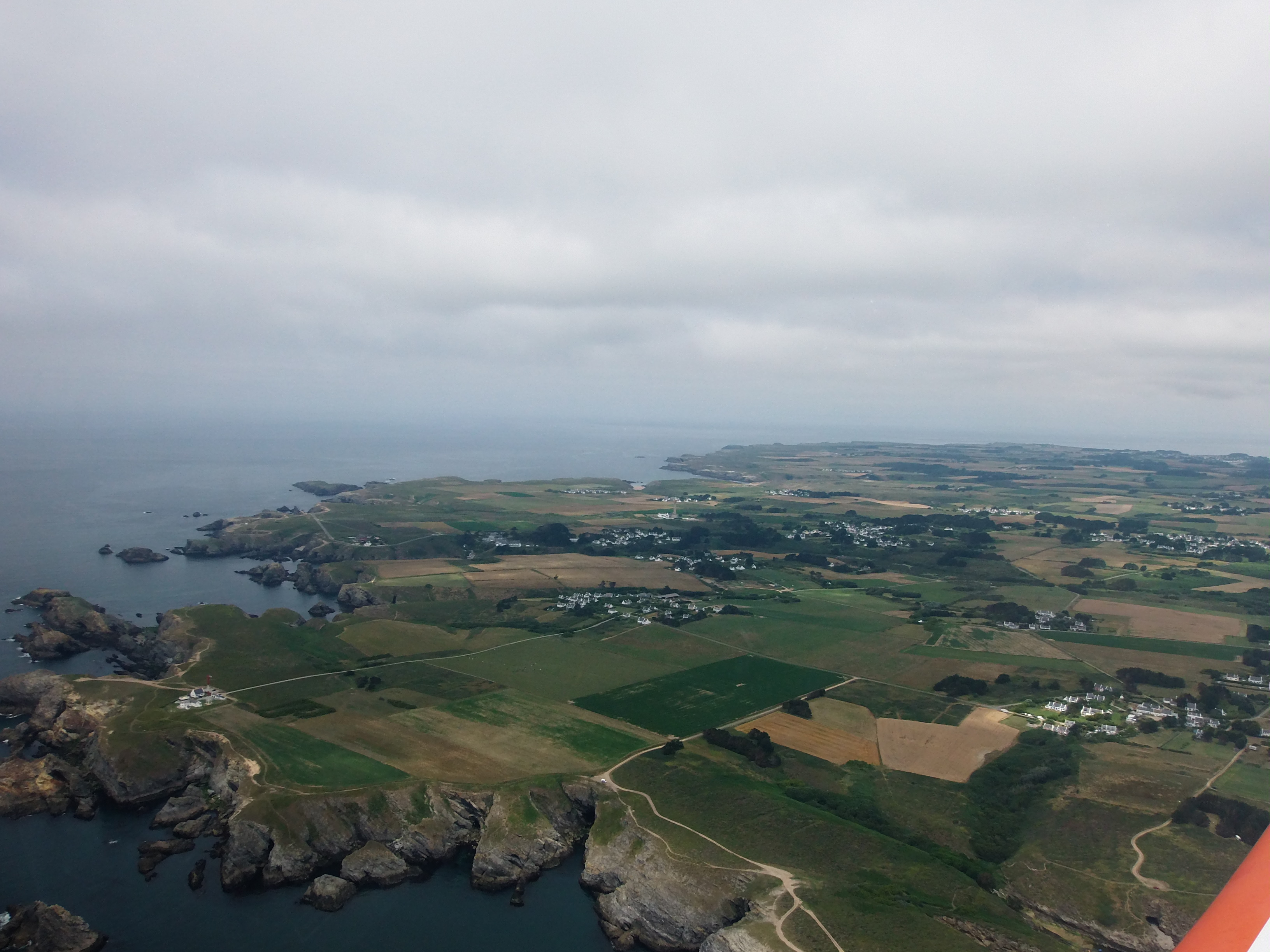 Aerial view of Bangor (Belle-Île-en-Mer), French commune in the Morbihan department.